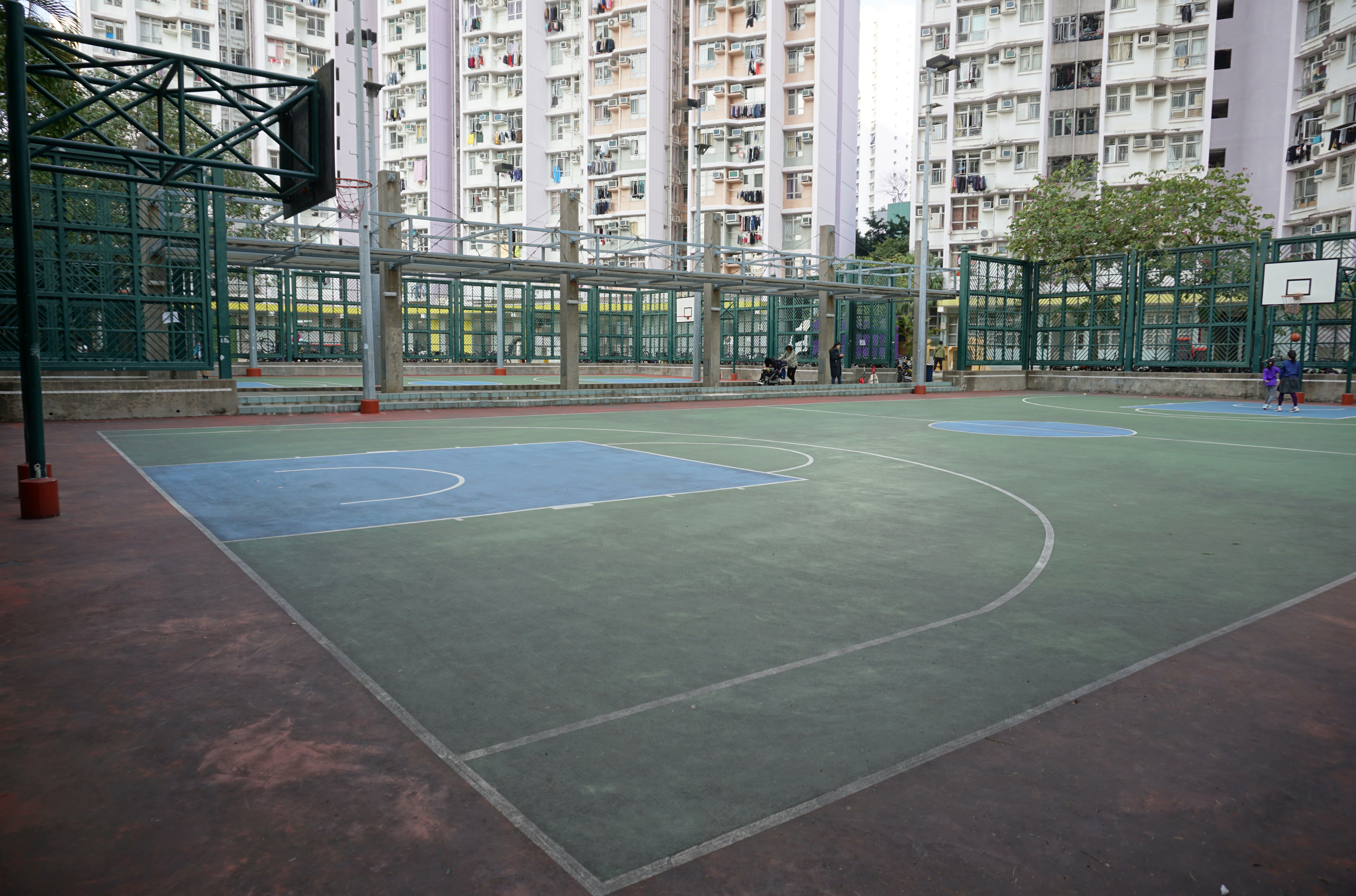 Chung On Estate in Ma On Shan, Hong Kong.